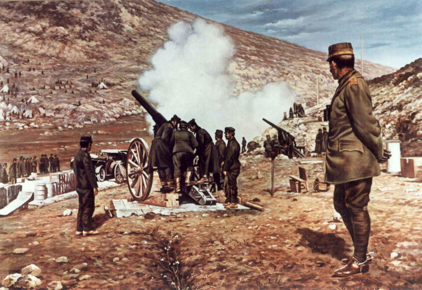 Crown Prince Constantine of Greece watches heavy artillery during the Battle of Bizani in the First Balkan War